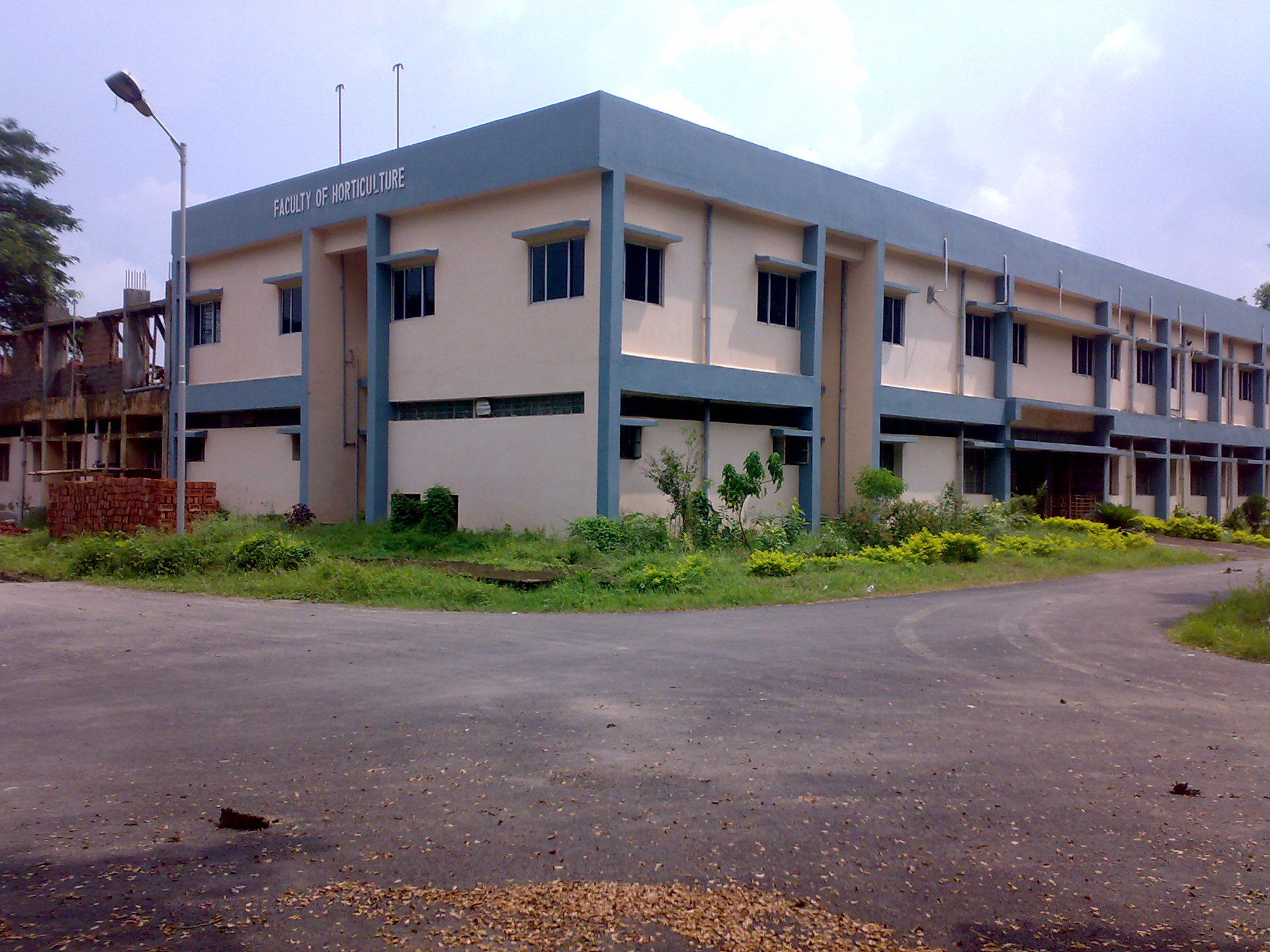 A photo of the Faculty of Horticulture, BCKV.